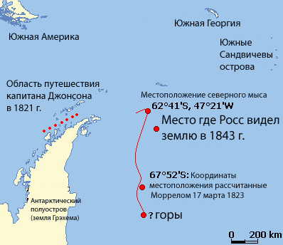 Map of Antarctica and the supposed coastline of New South Greenland as described by Benjamin Morrell